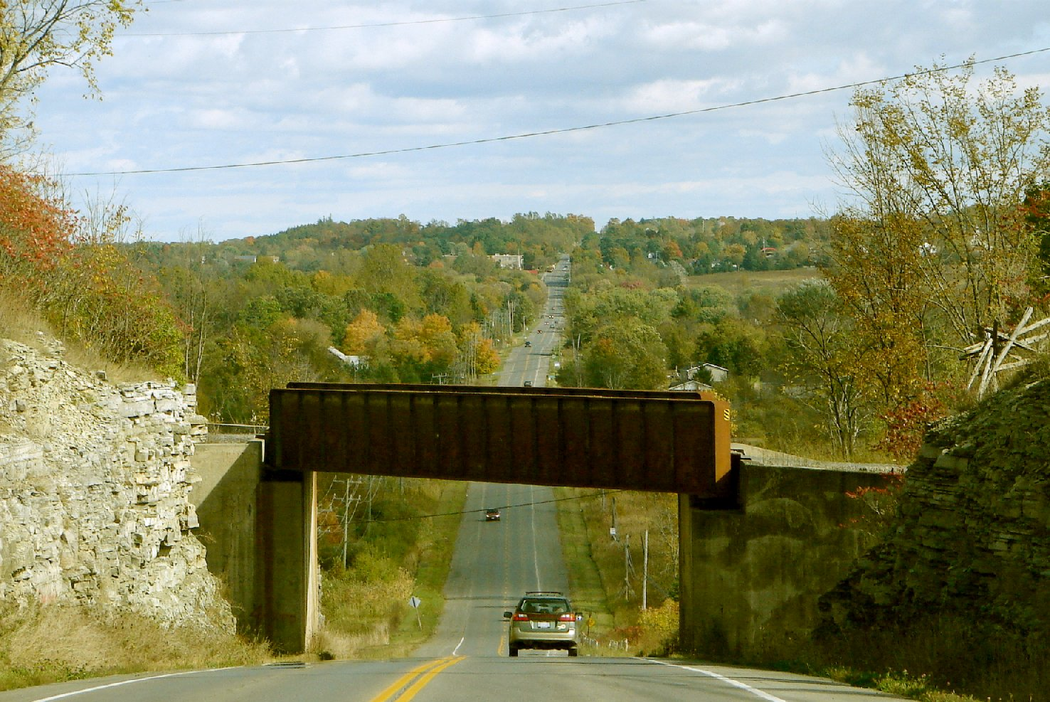 County Road 5, South Frontenac Township, Ontario, Canada. The old railway bridge is now part of the Trans Canada Trail.